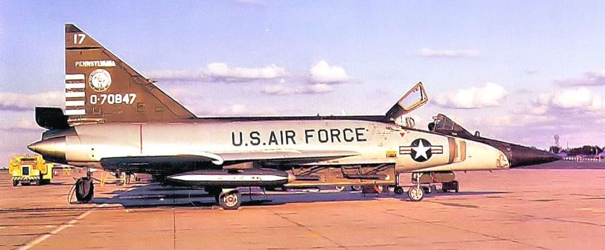 146th Fighter-Interceptor Squadron Convair F-102A-90-CO Delta Dagger 57-0847